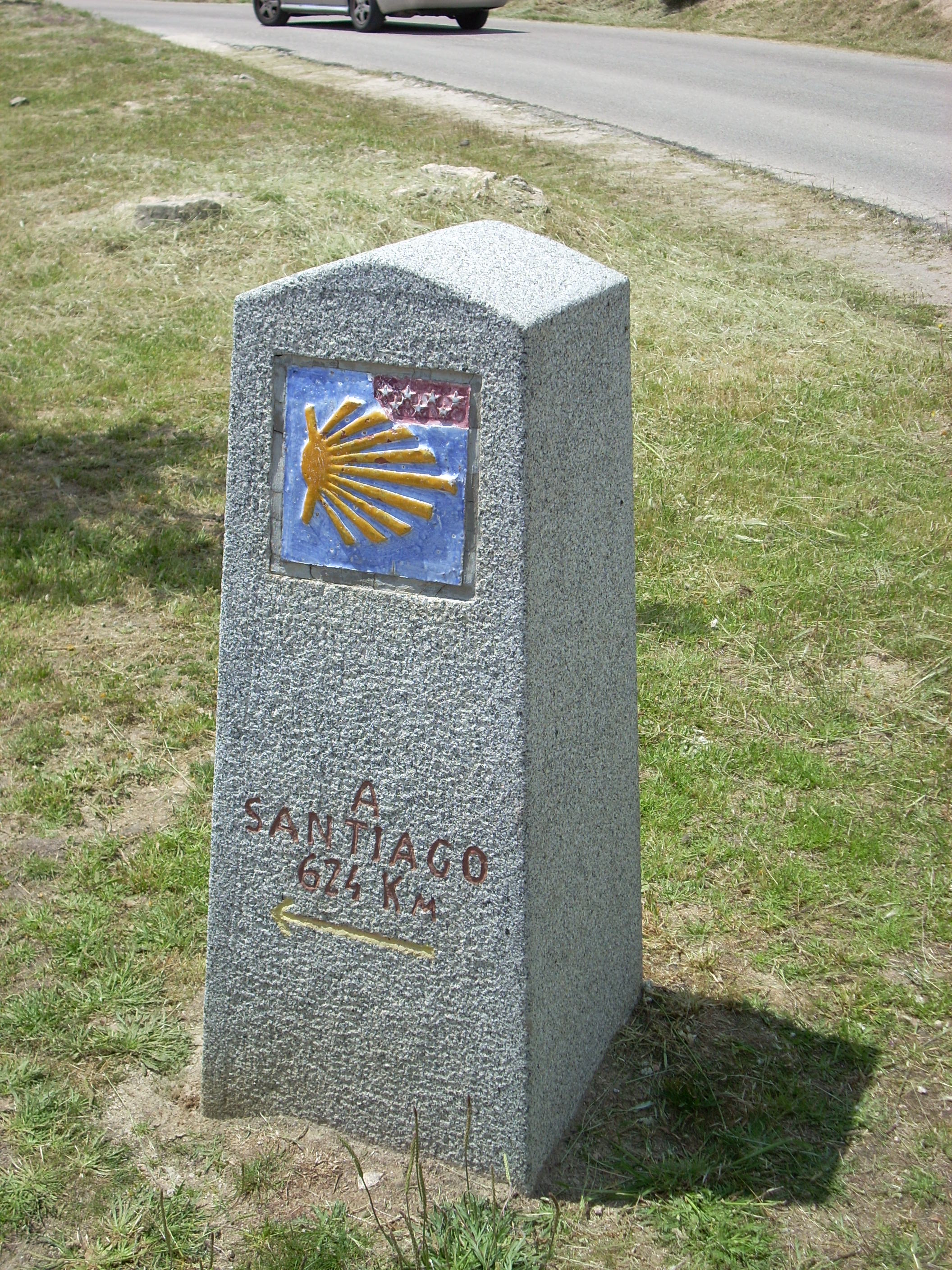 Sign of the Camino de Santiago de Madrid, Manzanares el Real